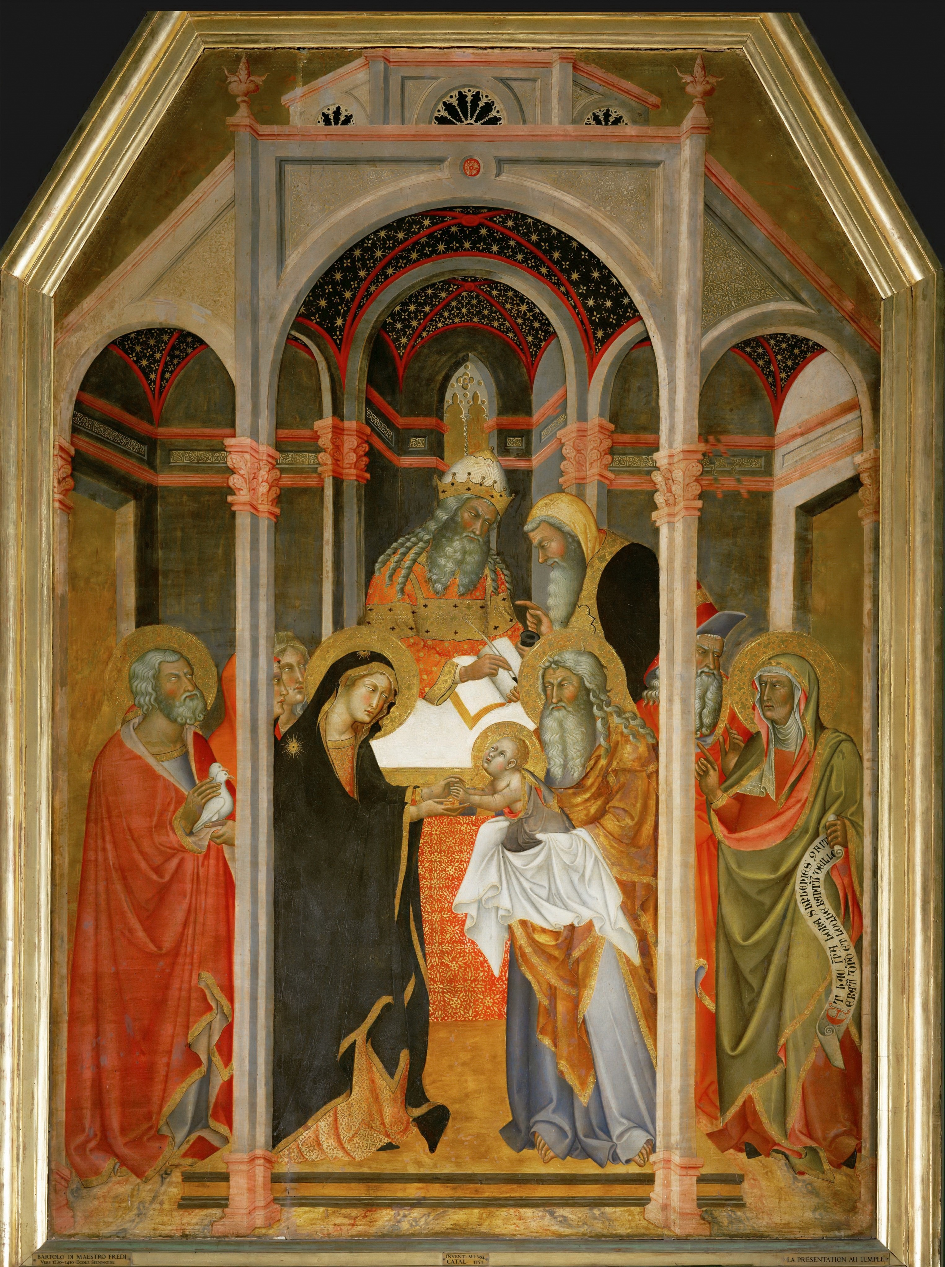 Presentatin in the temple Bartolo di Fredi